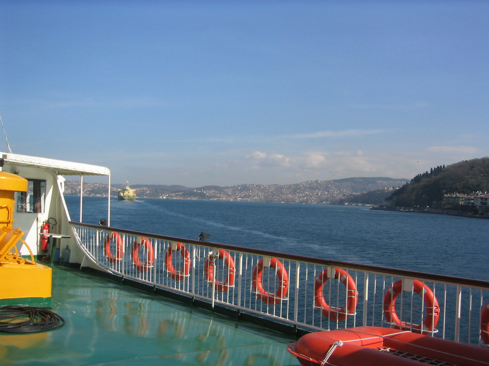 Istanbul, Turkey